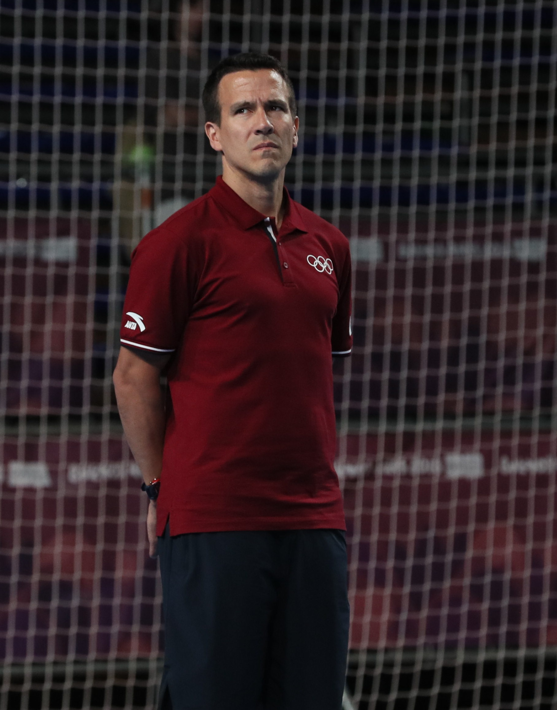 Futsal, Victory ceremnony Girls